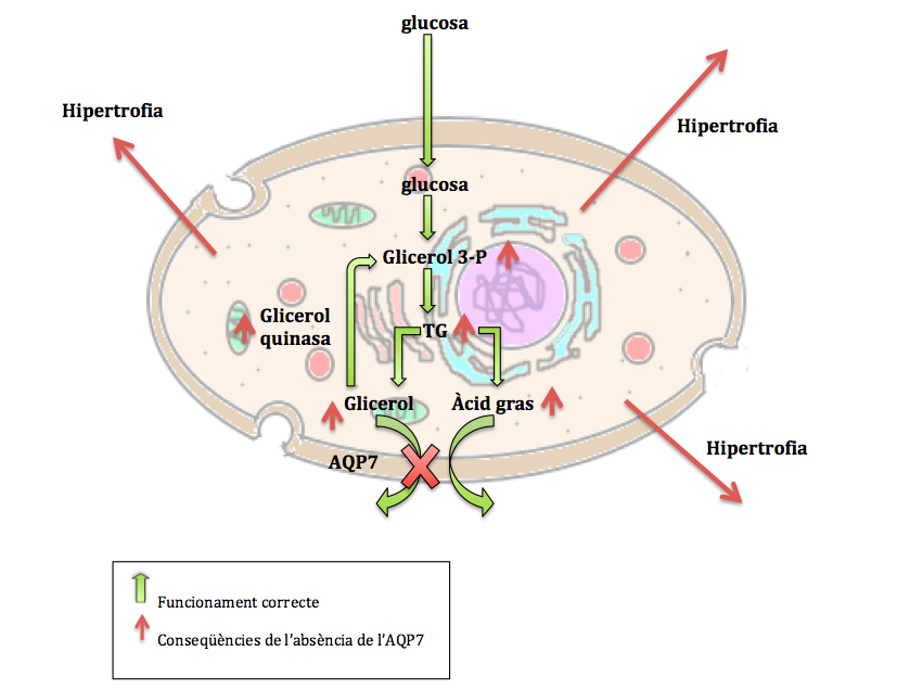 Conseqüències de l'absència d'AQP7 en l'obesitat.